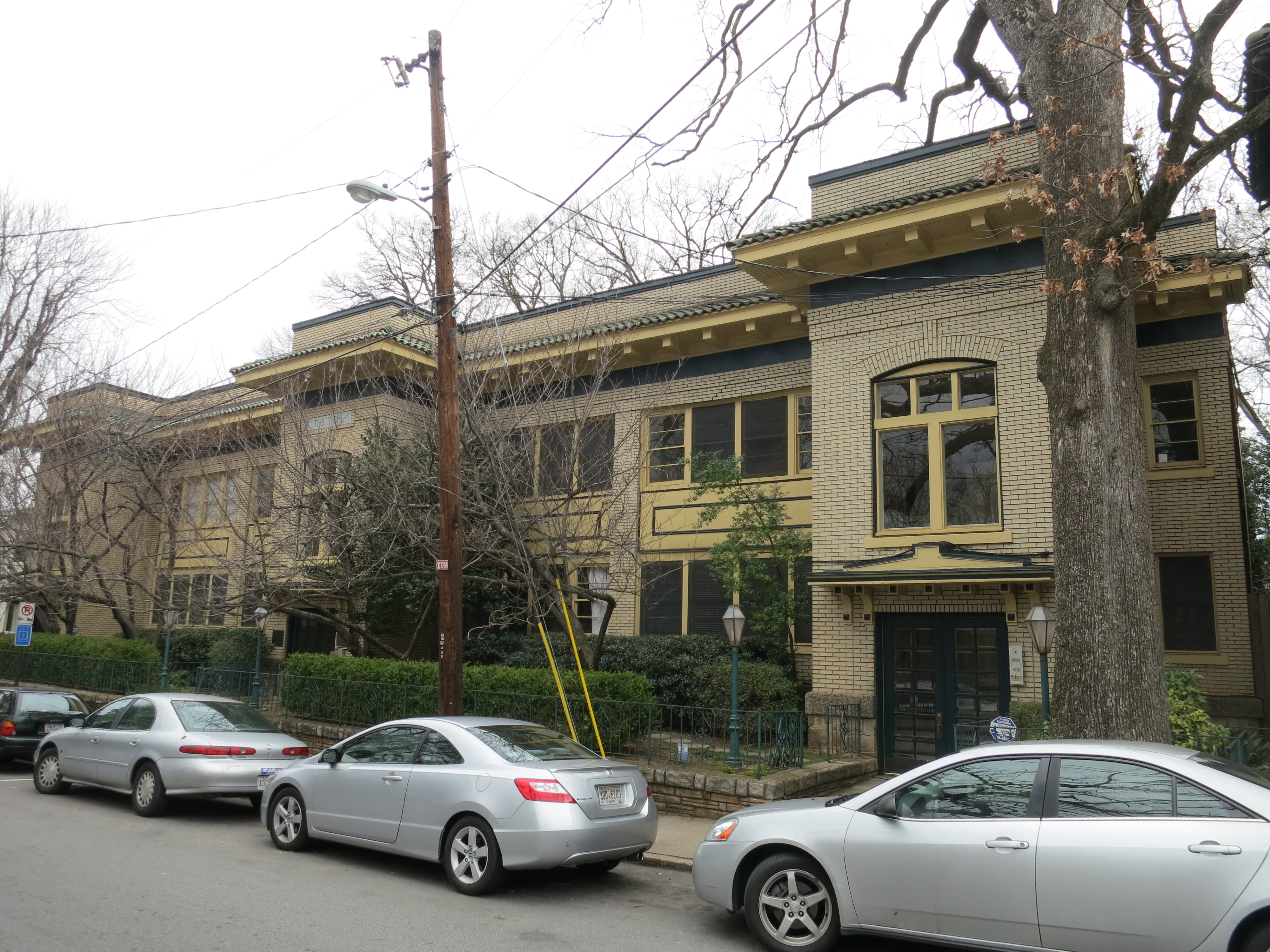 Tyree Building, Atlanta; taken in March - 2013